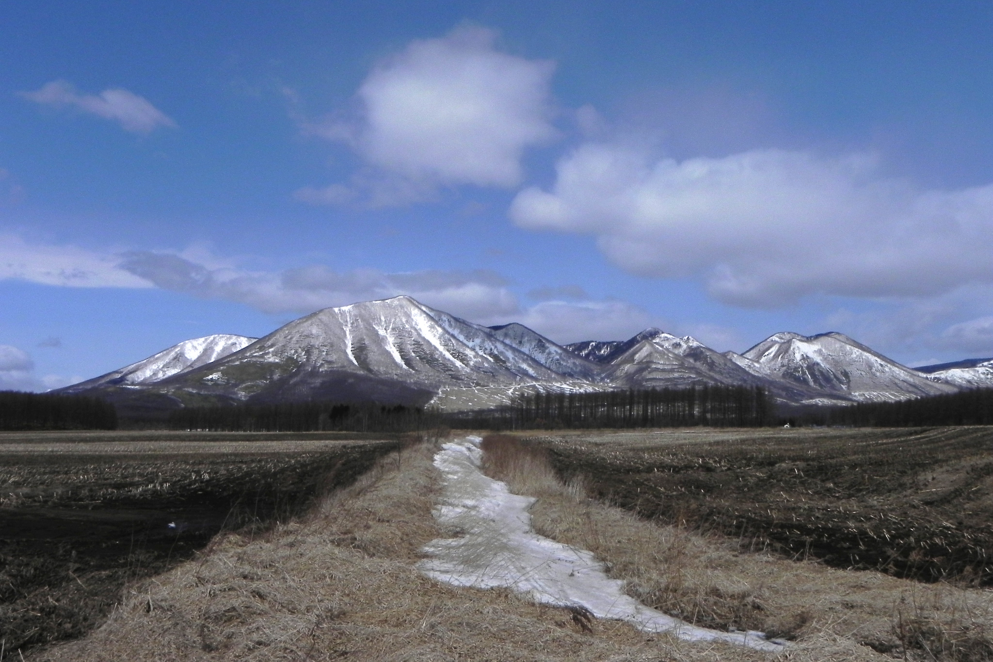 Shikaribetsu Volcano Group seen from the SSE.